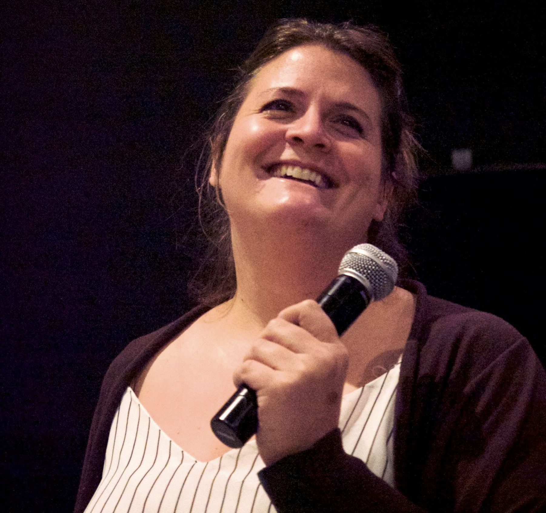 Filmmaker Megan Griffiths speaking about her film Sadie to an audience at Penn State University, 2018.